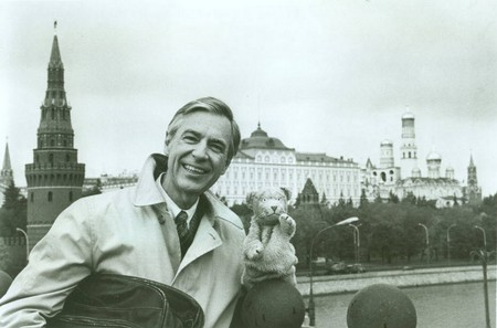 Fred Rogers and Daniel S. Tiger sightseeing in Soviet Union.